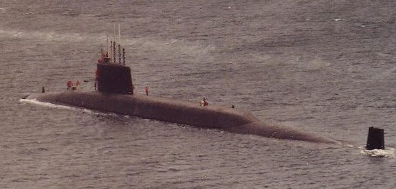 SIMON BOLIVAR transits to open ocean for one of 73 strategic deterrent patrols